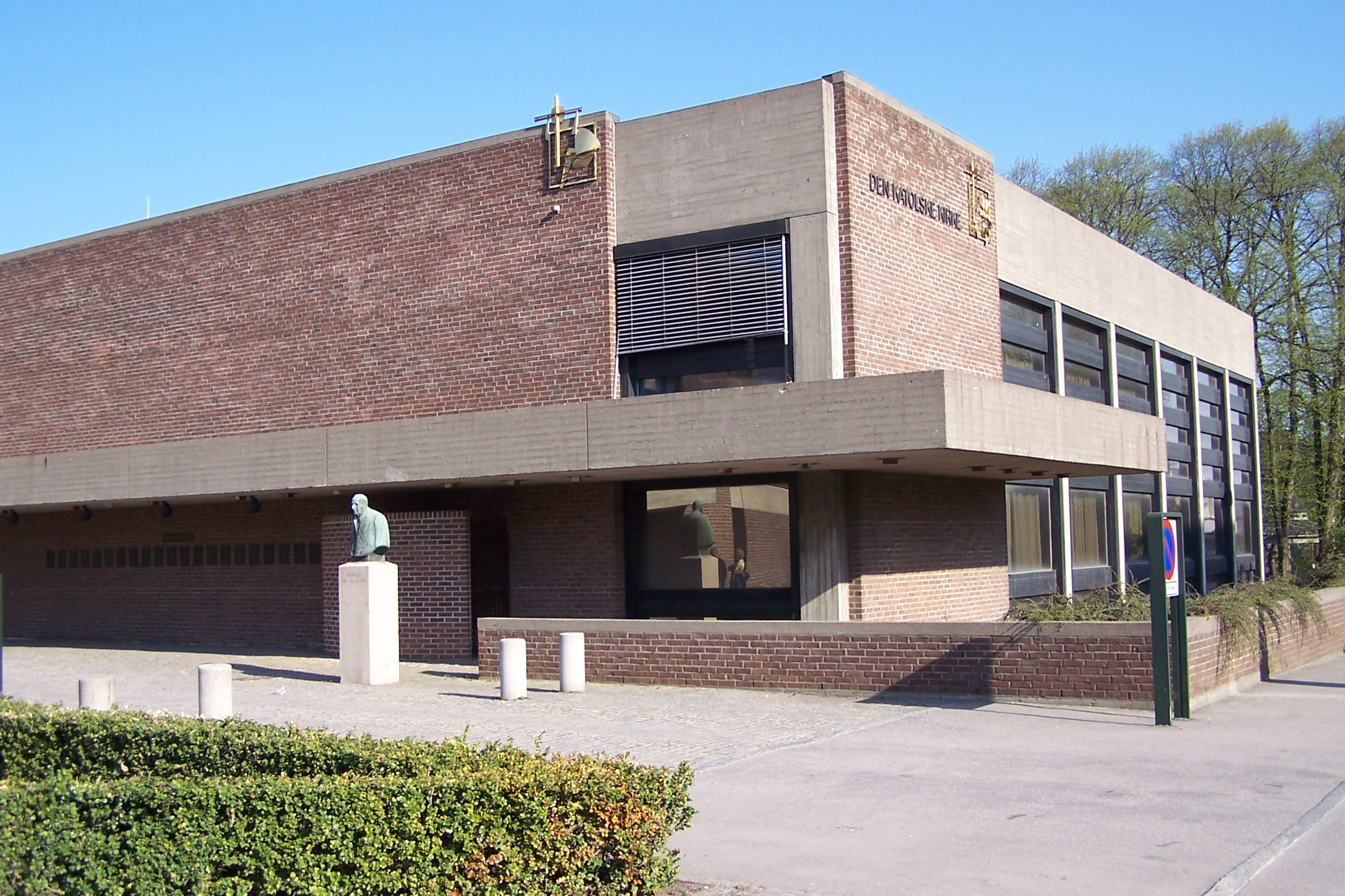 St. Michael Roman Catholic church in Moss, Norway